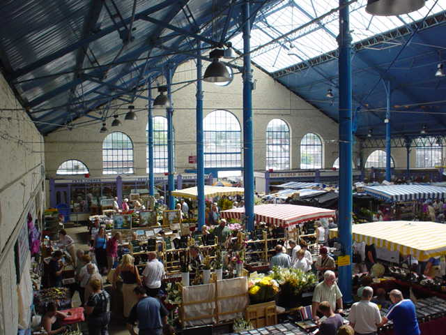 Abergavenny Butter Market